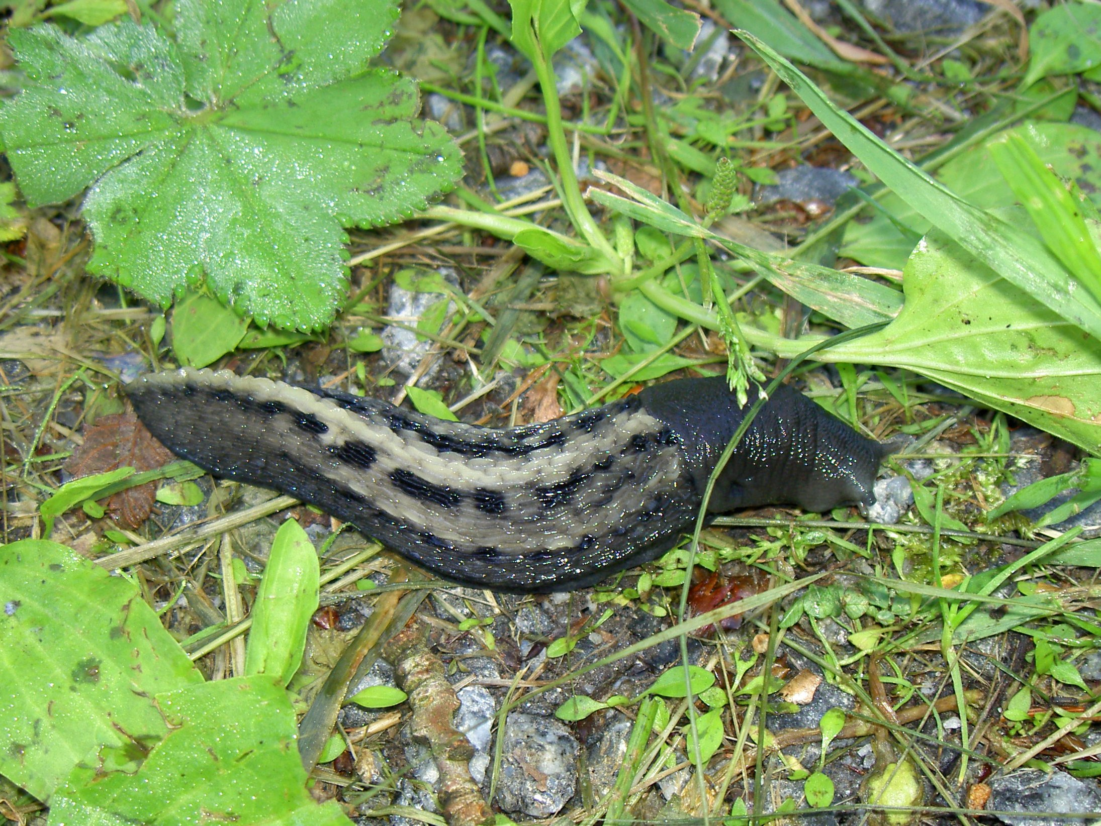 Limax cinereoniger, photographed by Teemu Mäki